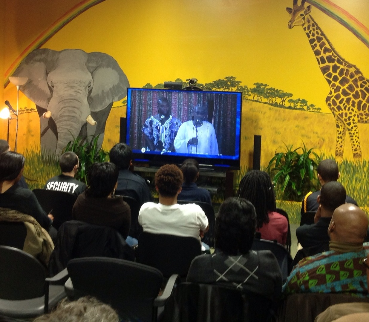 Telepresence Session with residents in Ghana, Africa and Newark, NJ